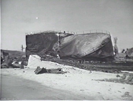 Australian War Memorial image 304377/02. Oil tanks destroyed by the German bombardment of Nauru in December 1940.